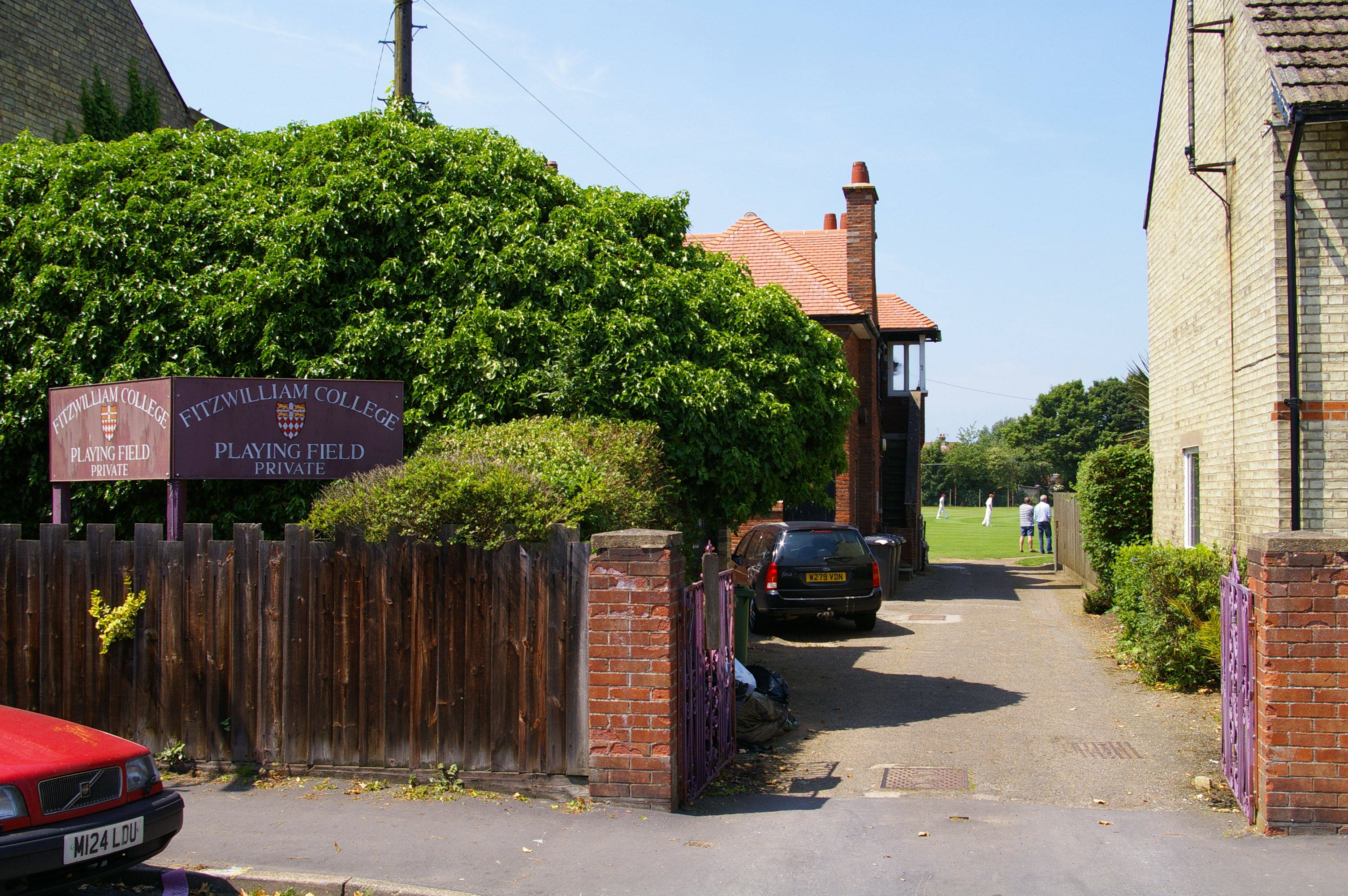 Fitzwilliam College Playing Field